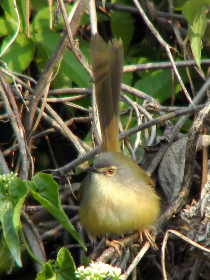 Yellow-bellied Prinia (Prinia flaviventris), Hong Kong